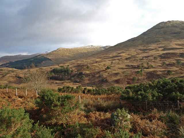 Glen Falloch Viewed from the West Highland Way after crossing under the A82 and starting to climb the west side of the glen. The remnants of a forest of Scots Pines can be seen on the hillside.